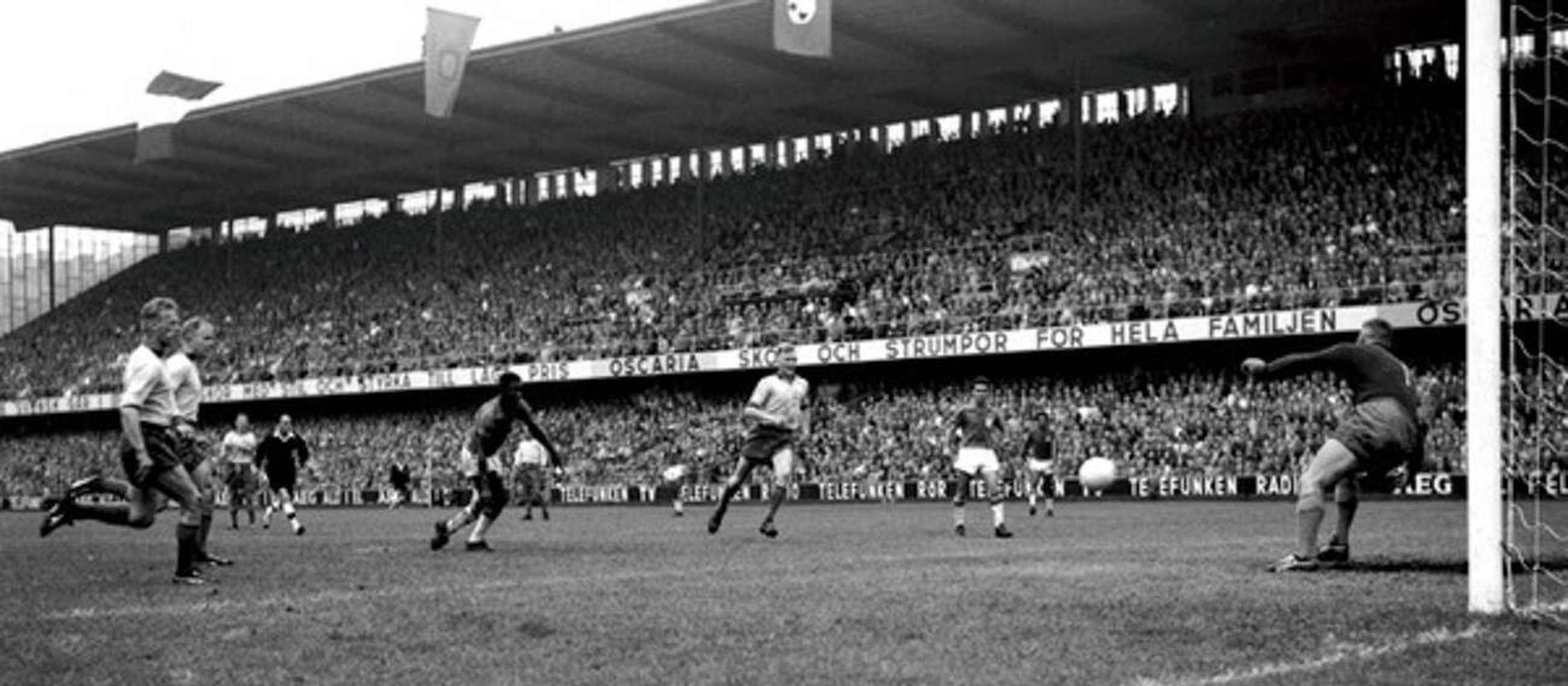 Pelé scoring a goal in the 1958 World Cup final.